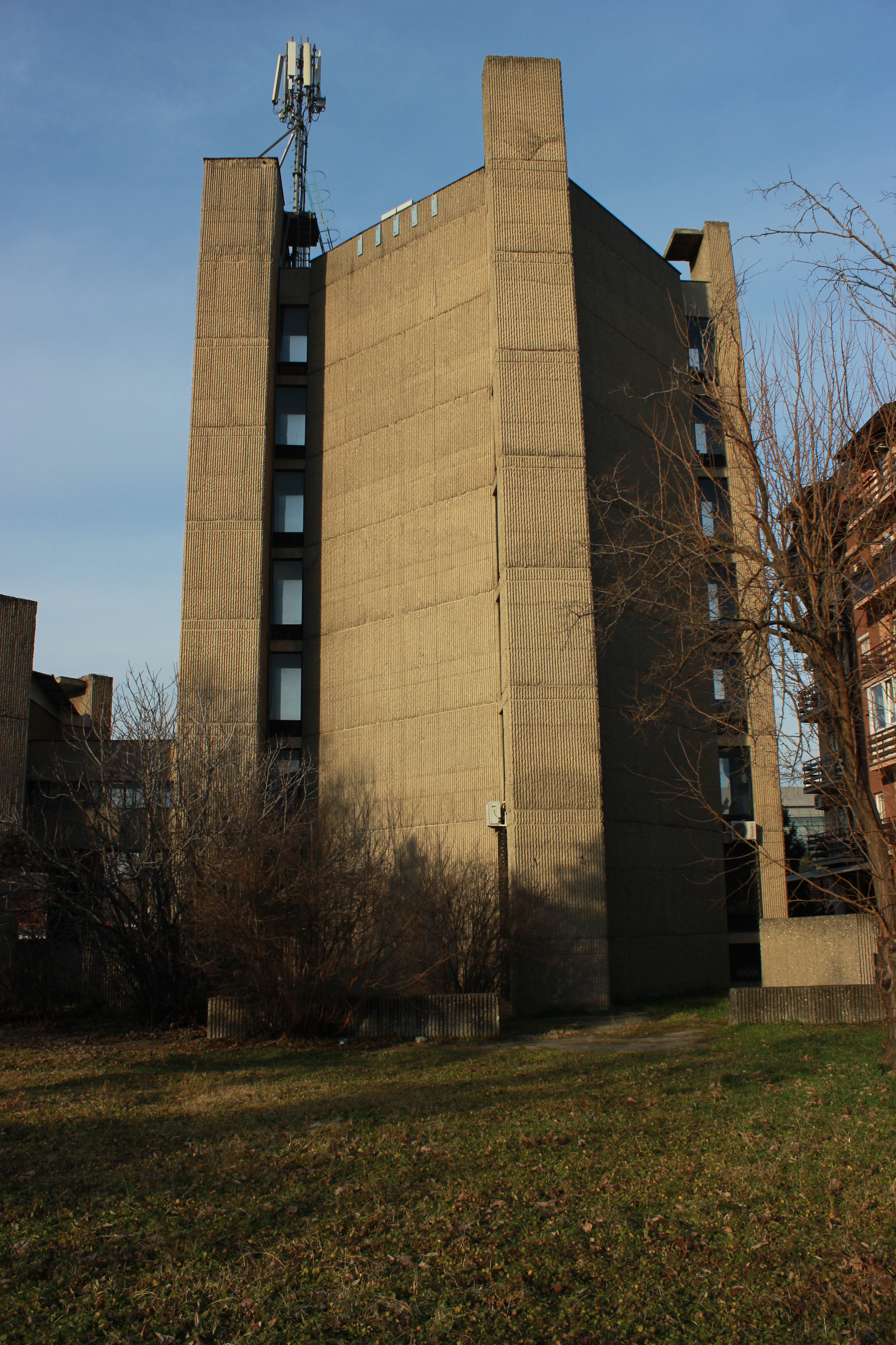 The building of the archives of Skopje, a department of the State Archive of the Republic of Macedonia. This media file is produced by Wikipedian in Residence in Category:Wikipedian in Residence at DARM in 2016.